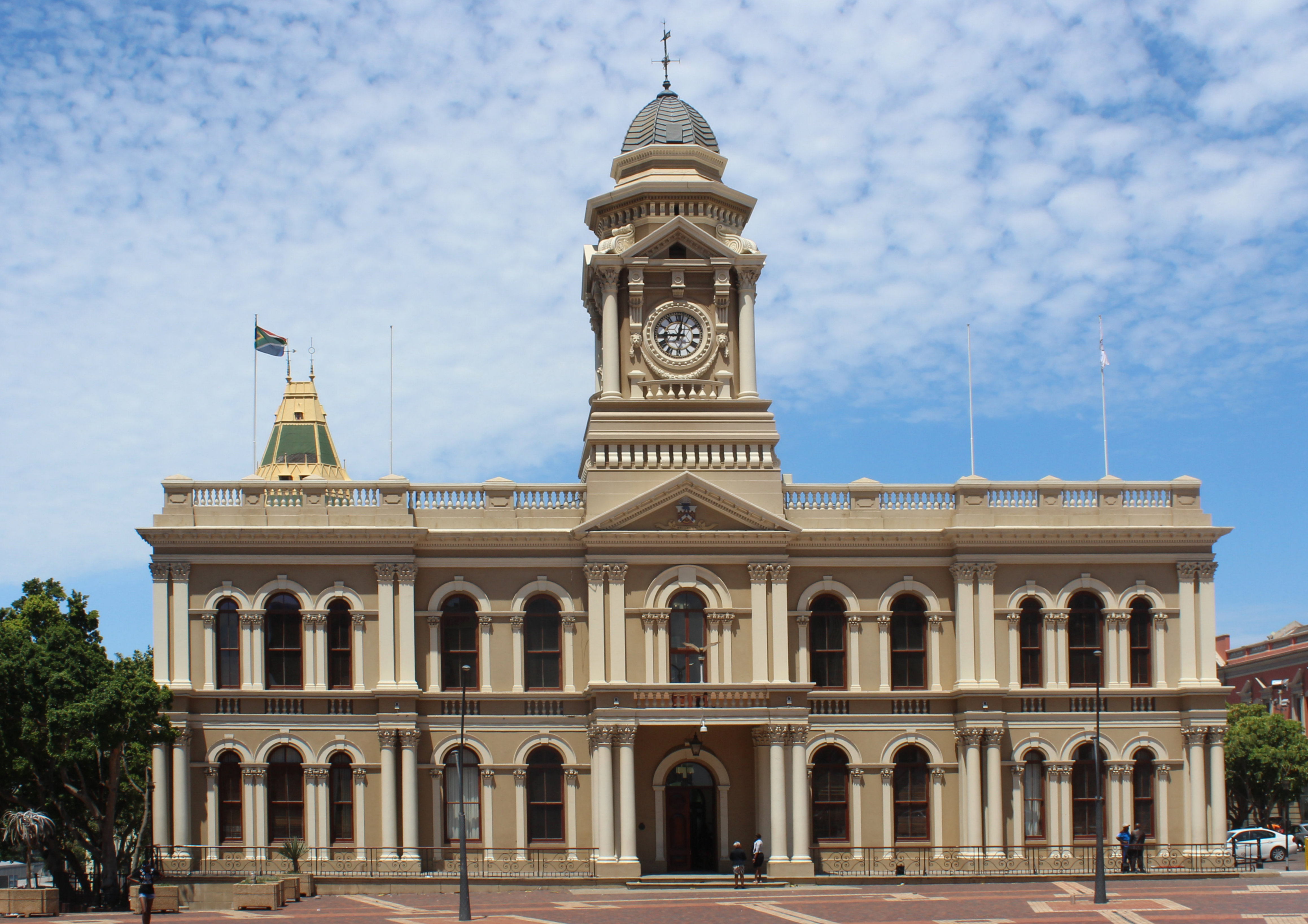 The Port Elizabeth City Hall was built between 1858 and 1862. It was proclaimed a national monument in 1973, burnt down in 1977 and subsequently rebuilt. This media shows a South African Protected Site with SAHRA file reference 9/2/073/0028See also: External entry in South African Heritage Resource Agency database.